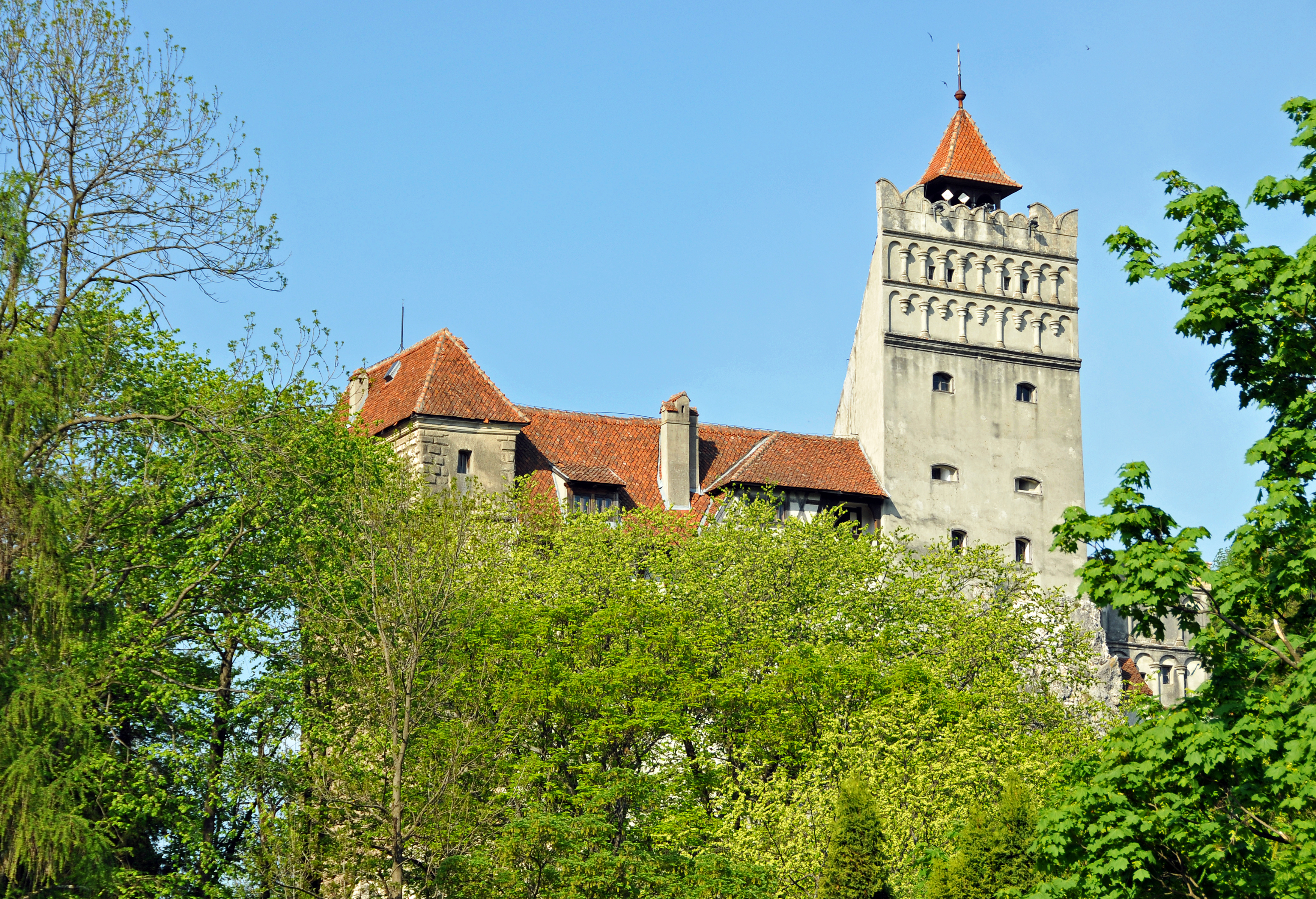 PLEASE, no multi invitations, glitters or self promotion in your comments, THEY WILL BE DELETED. My photos are FREE for anyone to use, just give me credit and it would be nice if you let me know, thanks - NONE OF MY PICTURES ARE HDR. Bran Castle is a national monument and landmark. The fortress is situated on the border between Transylvania and Wallachia. The castle is famous because of persistent myths that it was once the home of Vlad the Impaler, a famous or infamous medieval warlord; however, there is no evidence that he ever lived there. According to most accounts, the Impaler spent two days in the Bran dungeon, as the area was occupied by the Ottoman Empire at the time. Because of the disputed connections between Vlad and the fictional character Dracula, the castle is marketed to foreign tourists as Dracula's Castle.